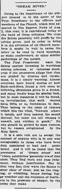 Article from page 4 of the Deseret Evening News published on August 16, 1913.